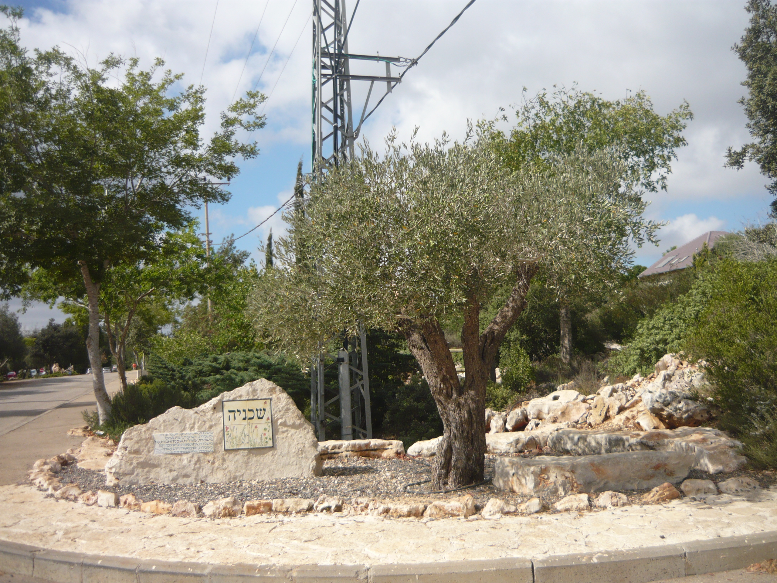 Shekhania הכניסה לשכניה. על האבן ציטוט מהתלמוד המונה את כ"ד משמרות כהונה וביניהן "שכניה"